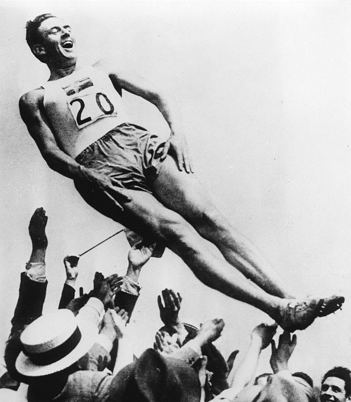 John Gabriel Oxenstierna of Sweden is thrown into the air by fans after winning the gold medal in the Modern Pentathlon event at the 1932 Olympic Games in Los Angeles, USA.